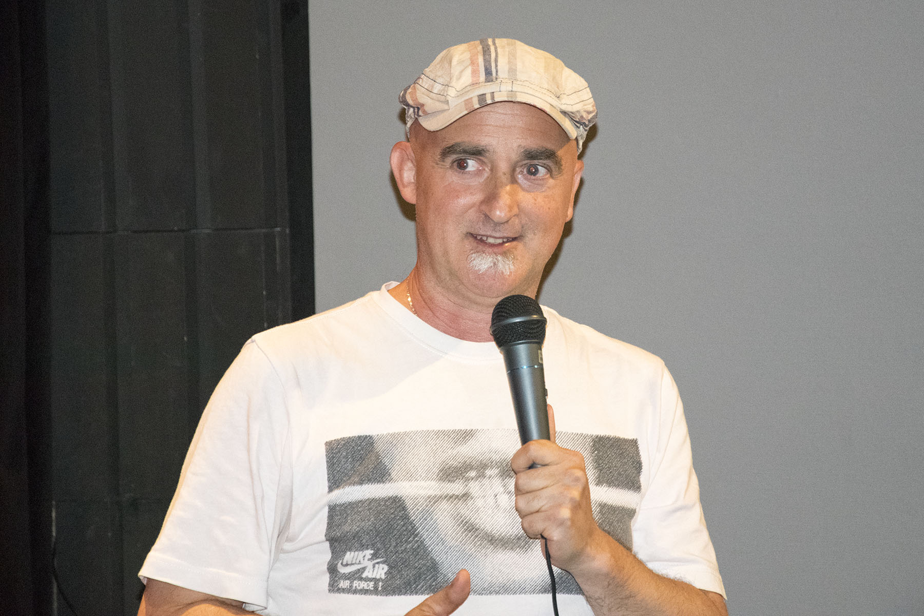 Director Angelo Orlando presenting the film "Rocco Has Your Name" (Rocco Tiene Tu Nombre) at the opening of the Prague Independent Film Festival in August, 2016.